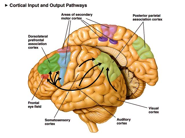 A picture of the posterior parietal lobe